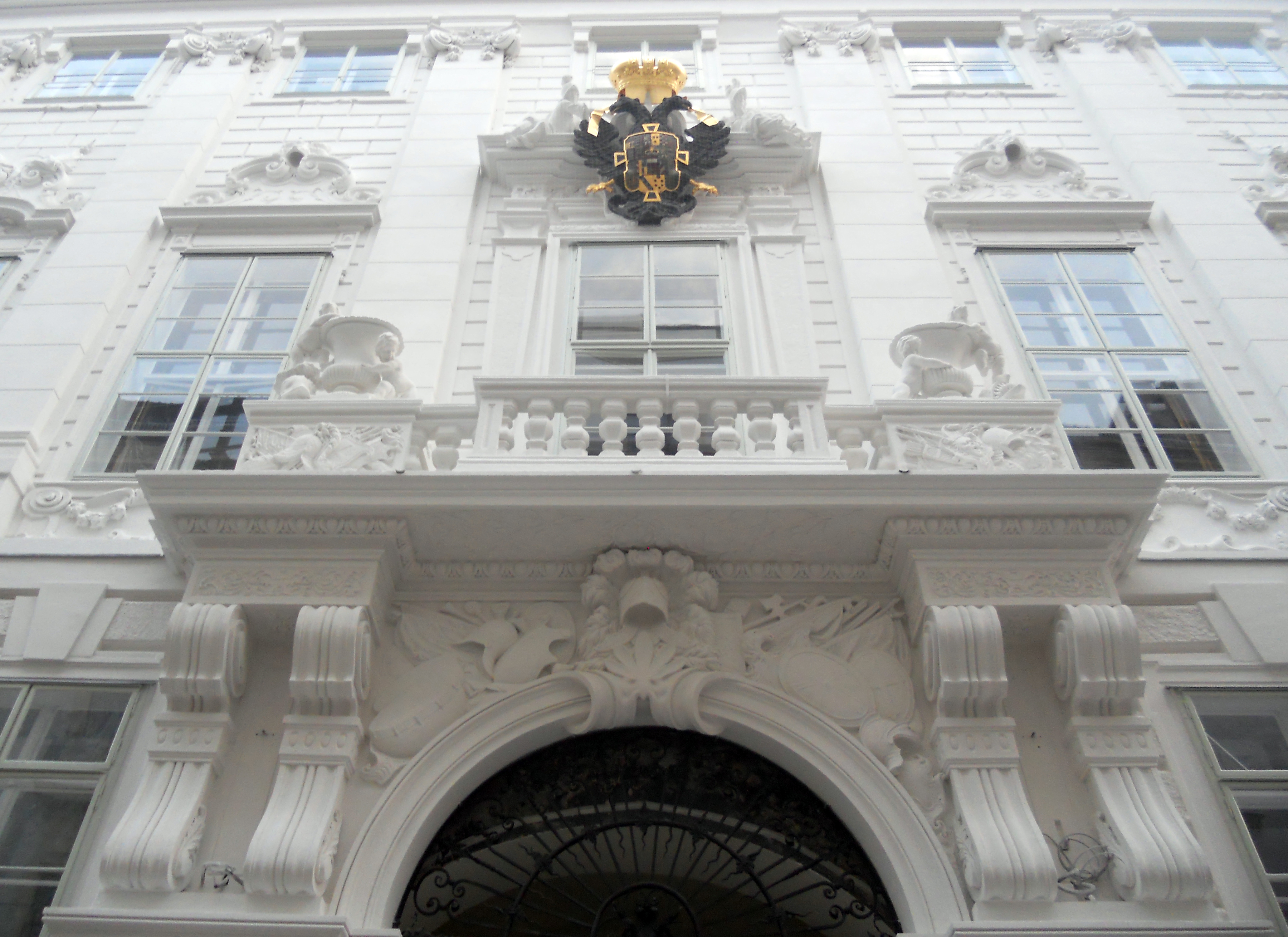 Winter Palace of Prince Eugene, Vienna, Austria